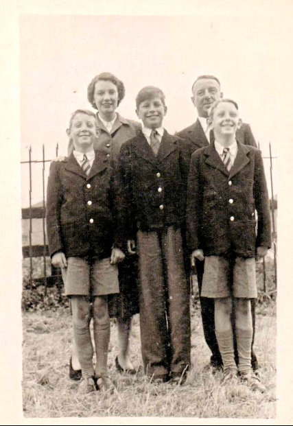 The Holland family at Romford Station Left to Right Front Row, Bryn, Tony, Allan Rear Row Pat, John